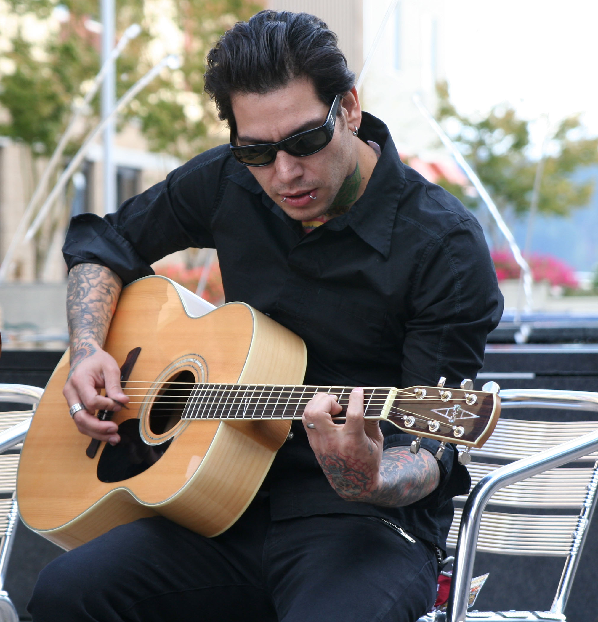 Picture I took of Mike Herrera of the band MxPx playing acoustic version of "Move to Bremerton."